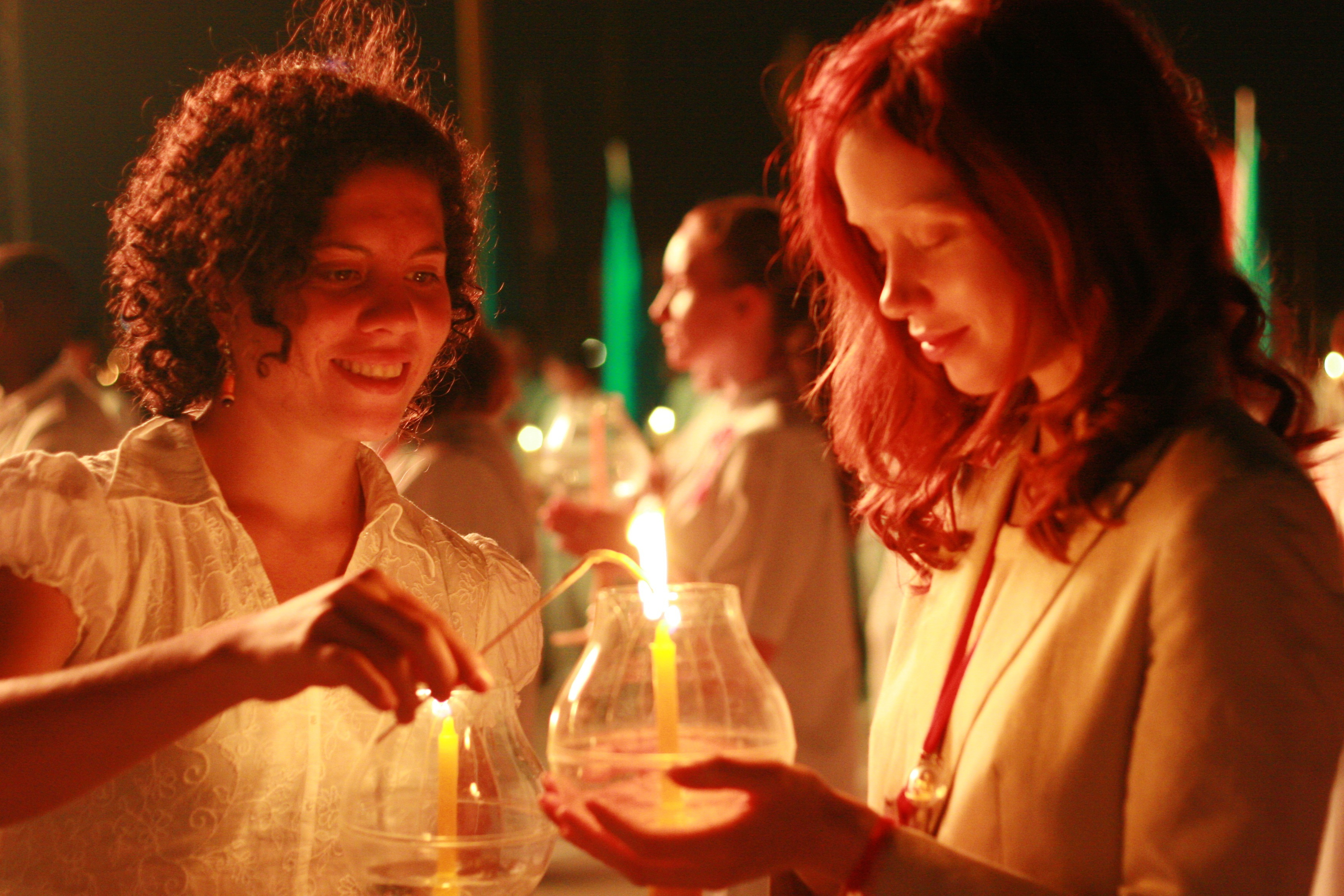 A youth program held in Thailand. The youth are joining in with a Magha Puja celebration held in Thailand.